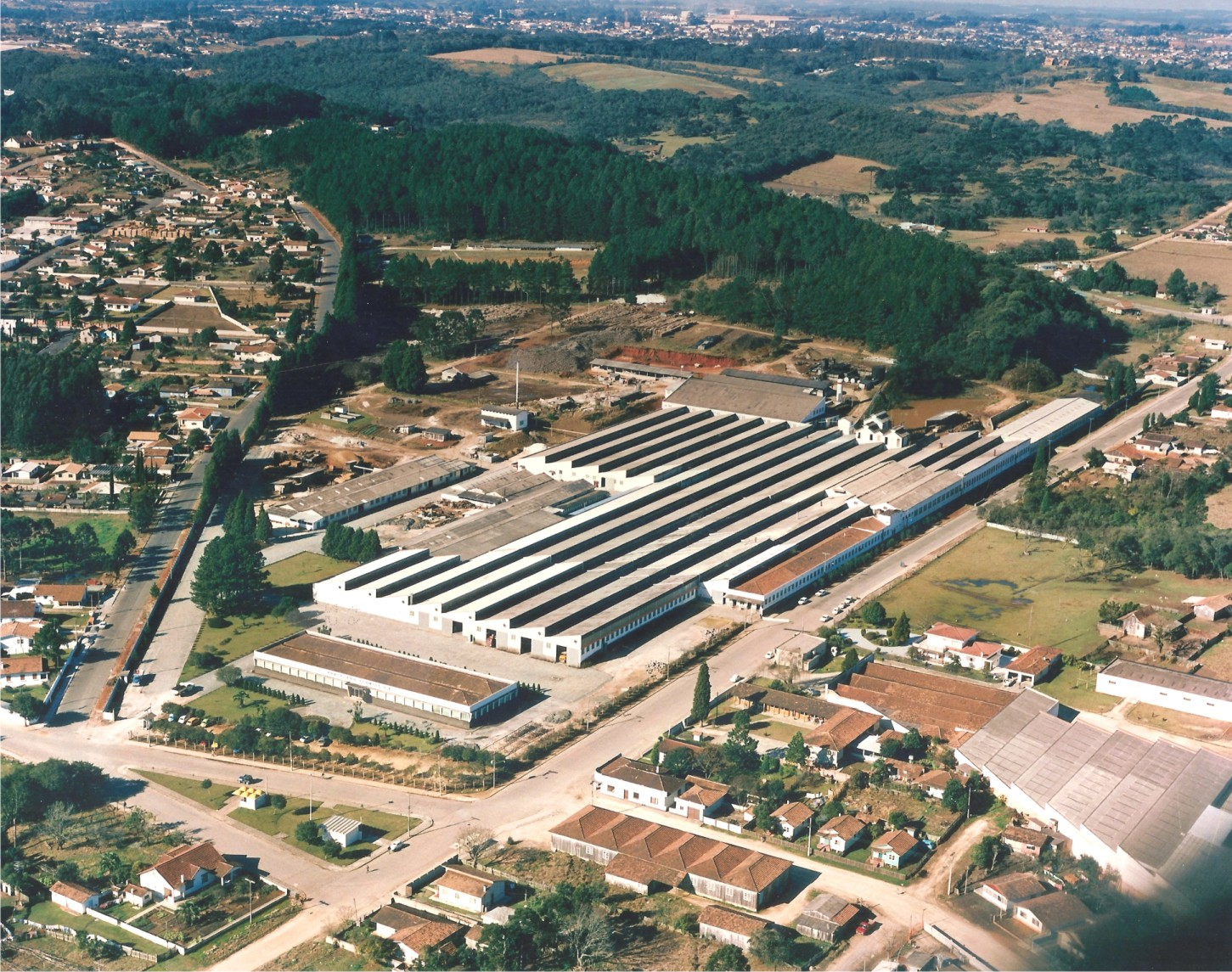 Porcelana Schmidt at Campo Largo Paraná Brazil.